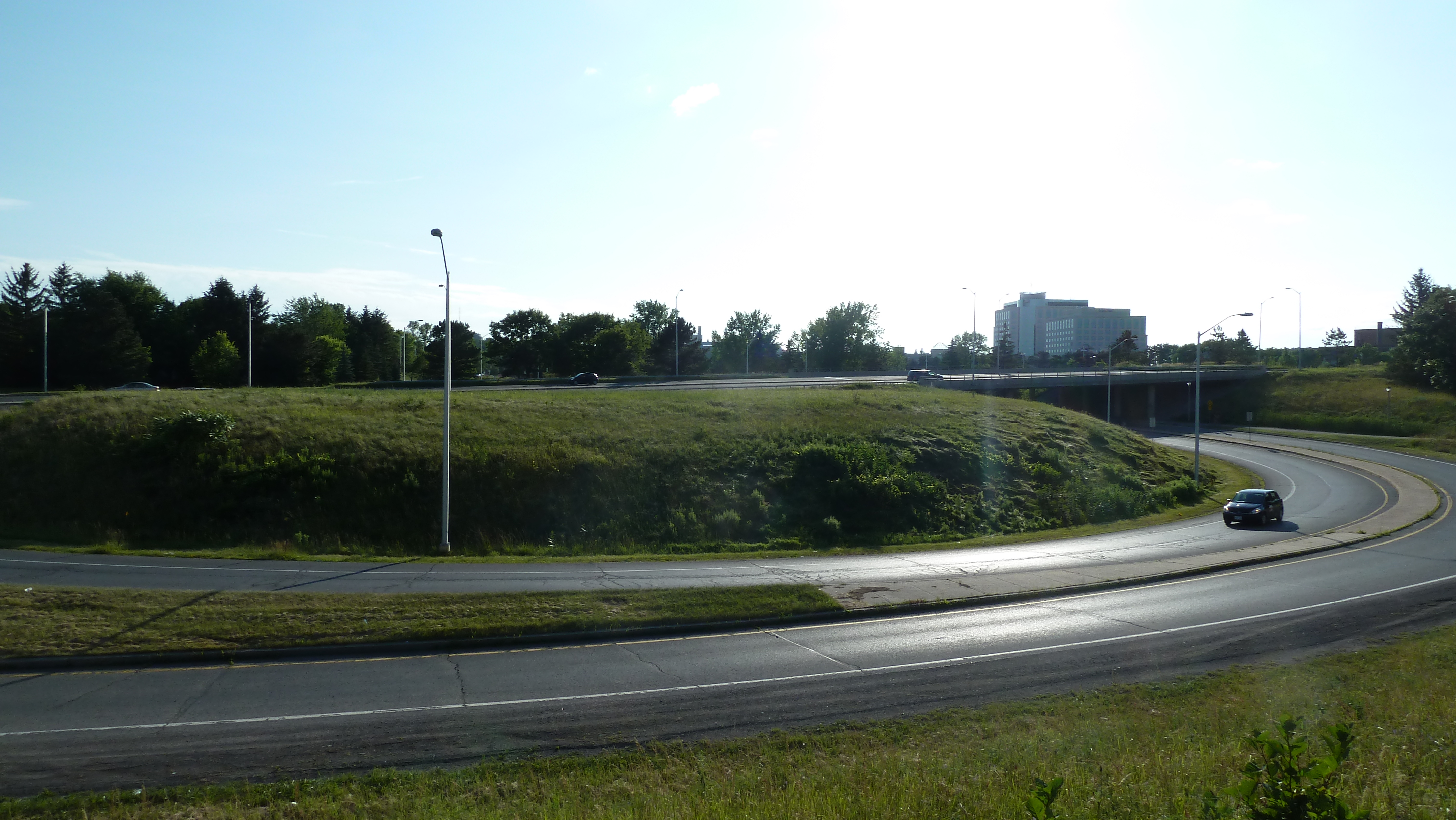 Exit off of Airport Parkway onto Brookfield Road in Ottawa